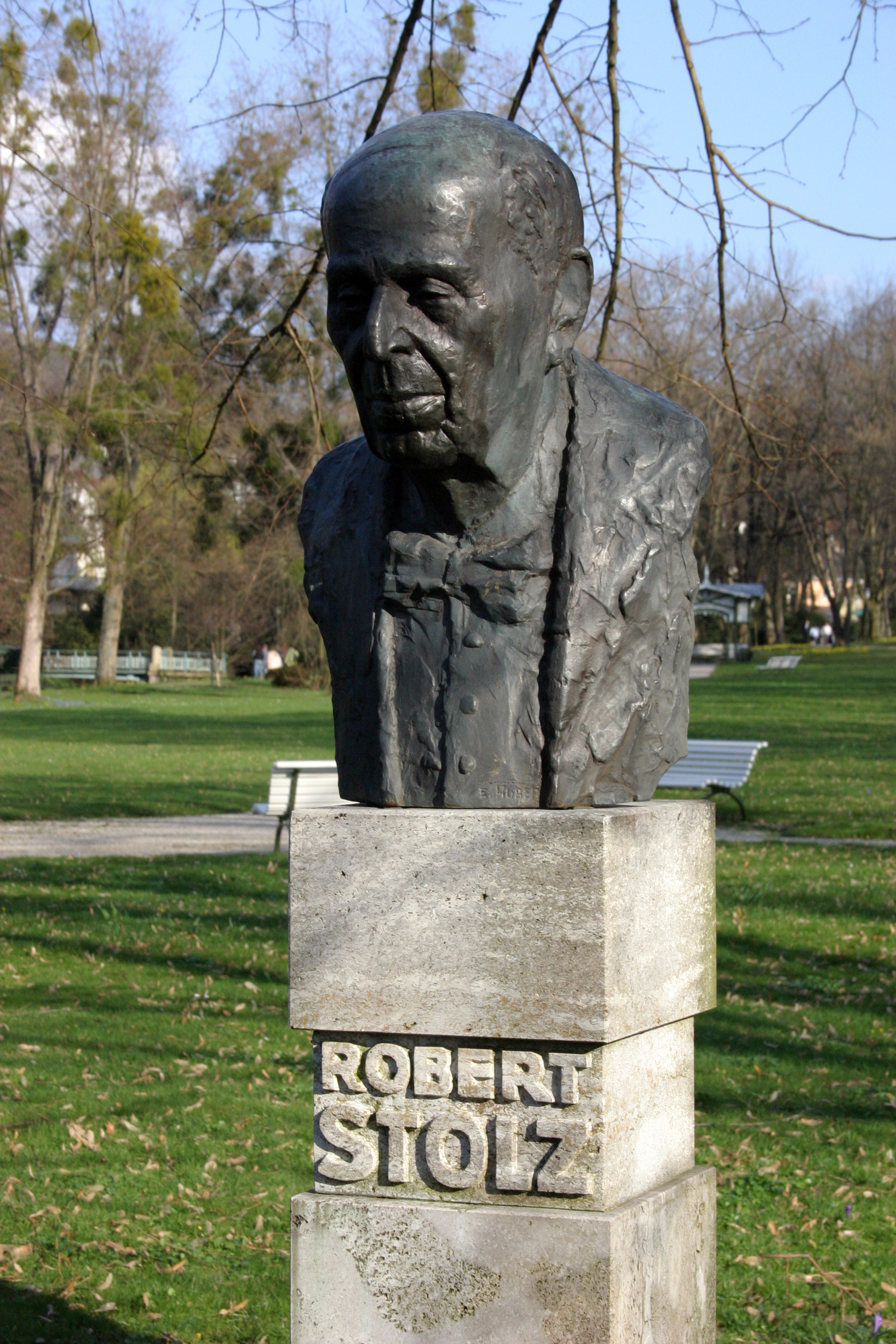 Bust of the composer Robert Stolz in the Lichtentaler Allee in Baden-Baden.